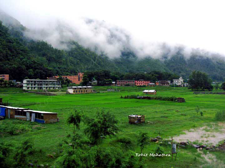 pyuthan vally boarding scool